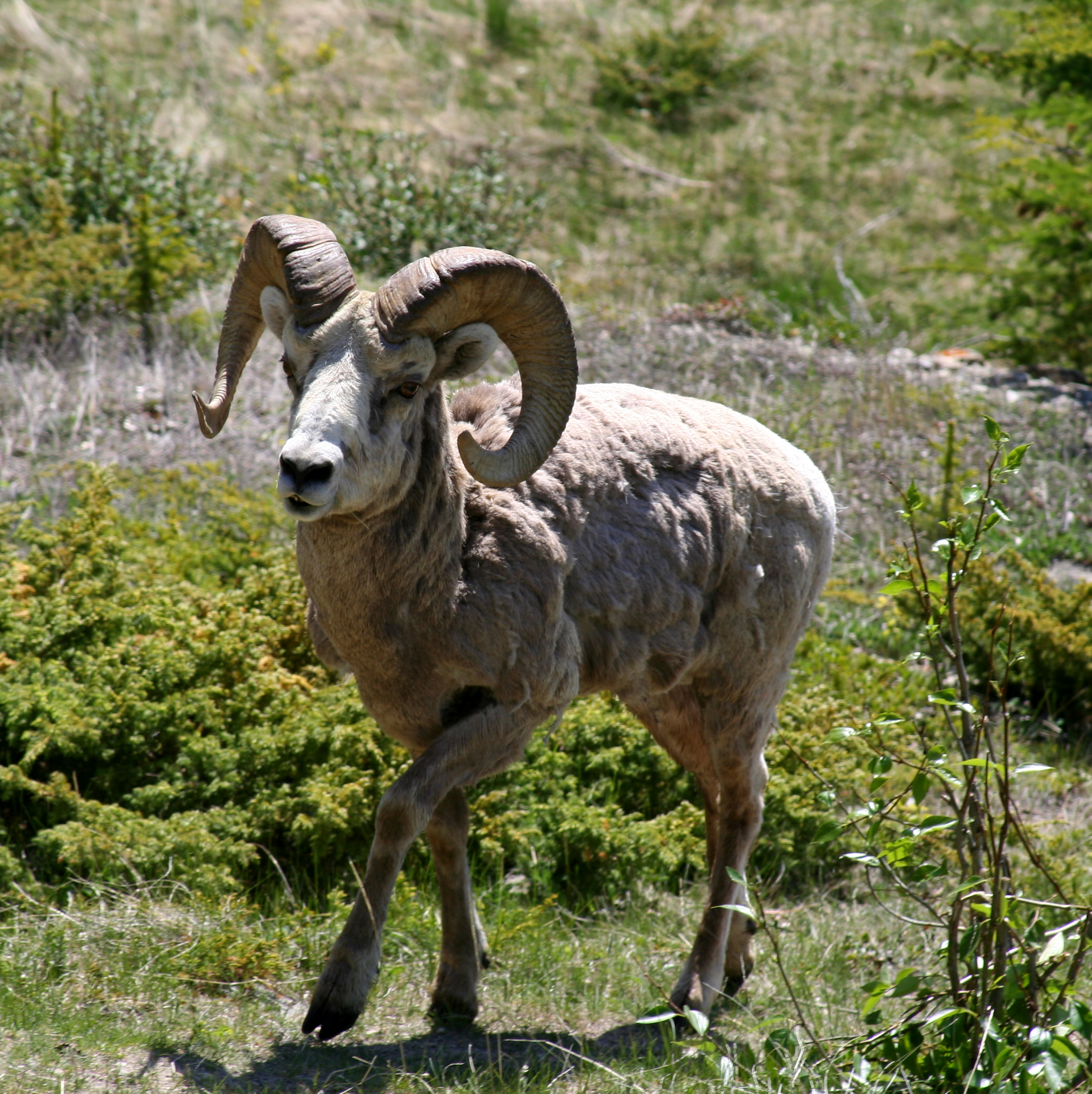 Bighorn sheep (Ovis canadensis) in Alberta, Canada